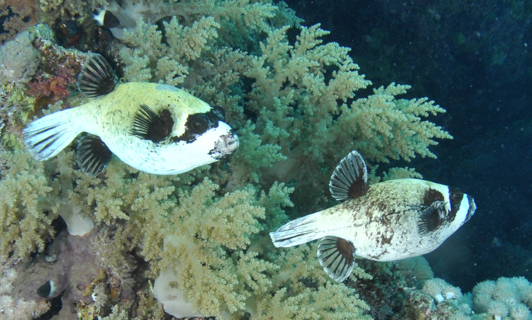 Masked puffer (Arothron diadematus)